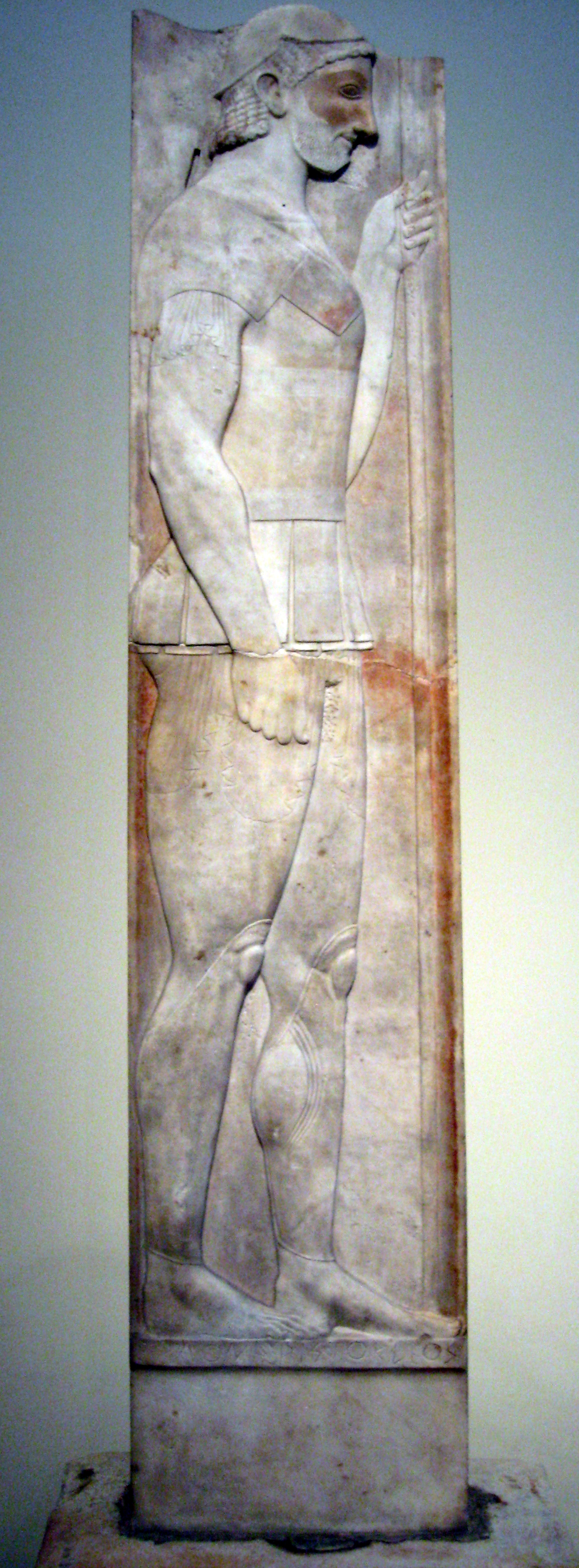 Funerary stele of an Athenian warrior (Aristion) wearing the kynê (a cap of sorts, made of leather). Relief at thr National Archaeological Museum of Athens. Ca. 520 BC. Inscription on the bottom naming the artist and the dead